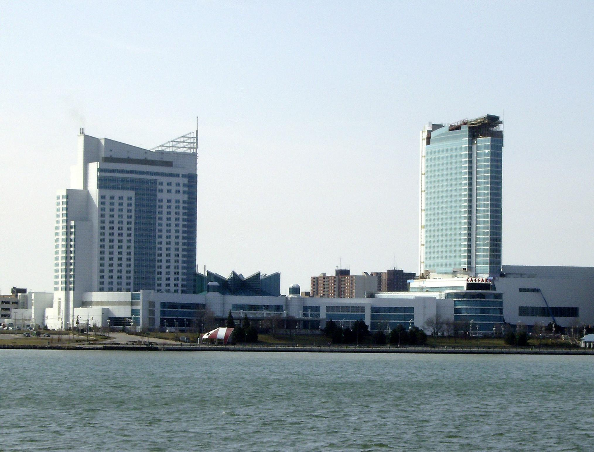 Casino Windsor expansion